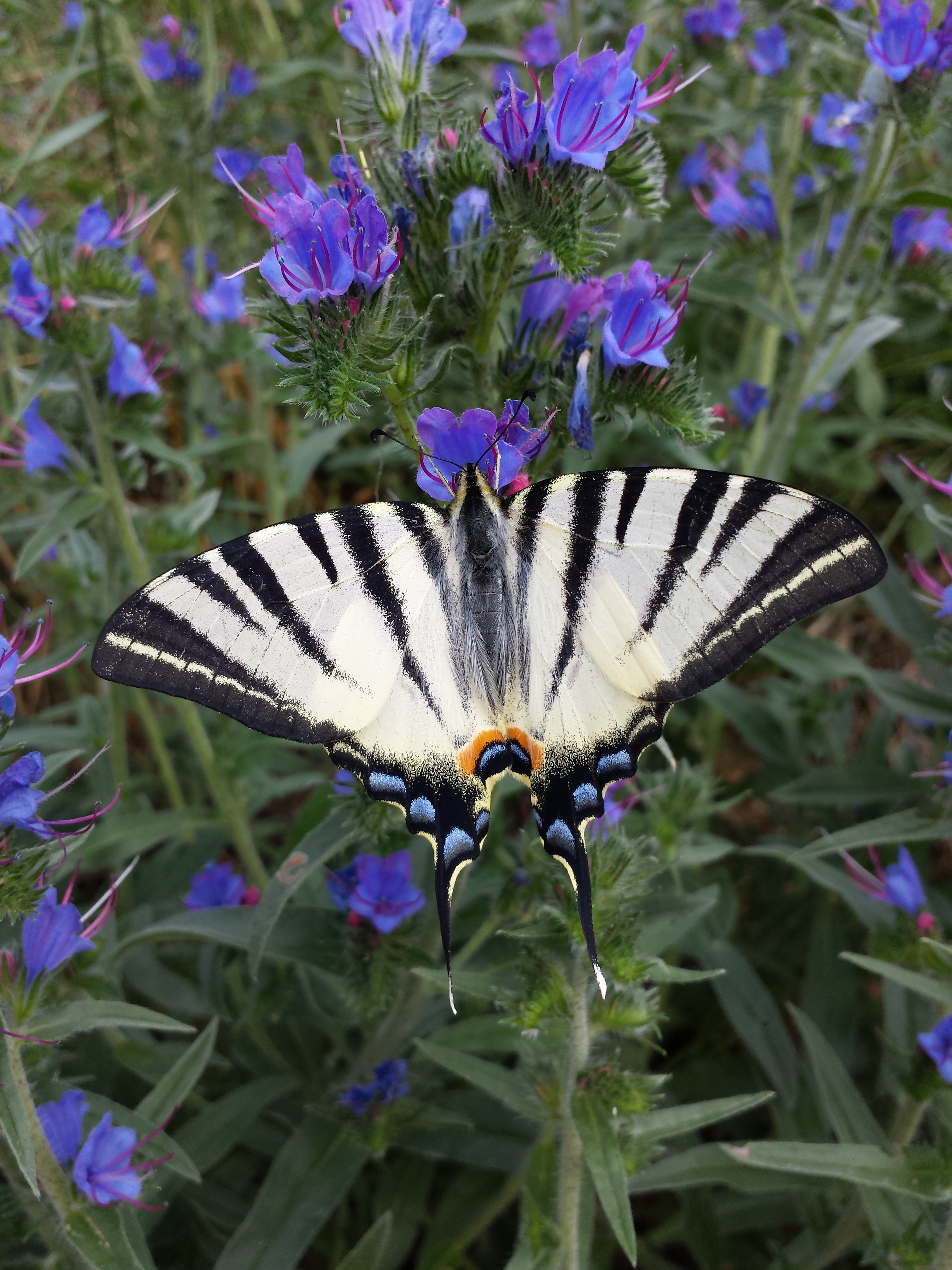 Flowers Taxon: Echium vulgare (sensu Fischer et al. EfÖLS 2008) with Iphiclides podalirius Location: Heiligenstein near Zöbing, district Krems, Lower Austria - ca. 370 m a.s.l. Habitat: wine yard beside travel way